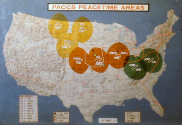 Post Attack Command and Control System (PACCS) EC-135 peacetime orbit areas (circa 1972)